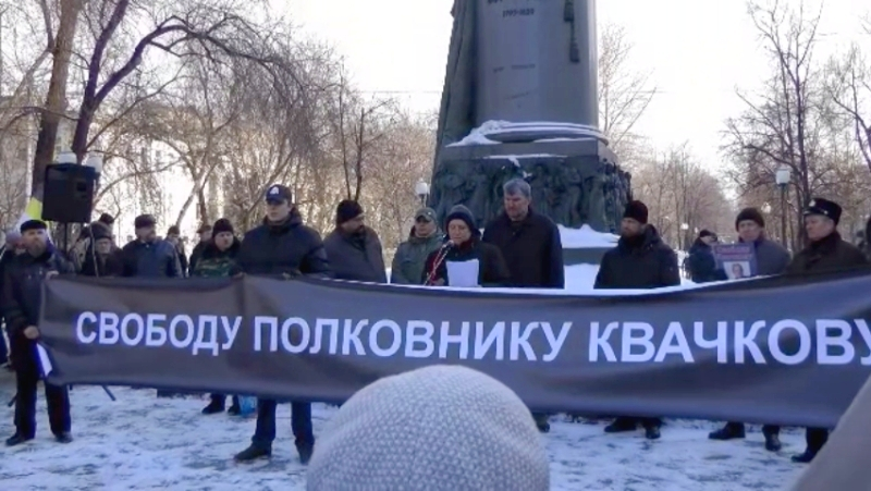 “Free Colonel Kvachkov,” a civil protest in Moscow on March 12, 2011.